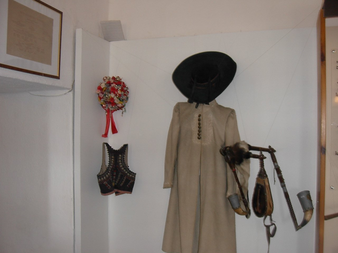 Traditional costumes of Chodsko Region on display at Kozina's farm in Újezd, Domažlice District Czech Republic.